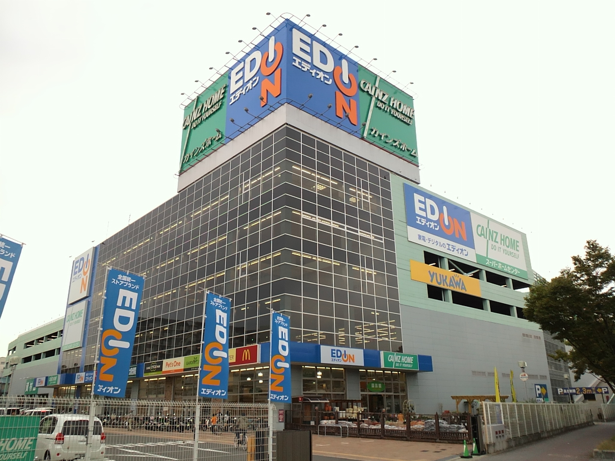 Cainz Home and Edion, Higashiosaka